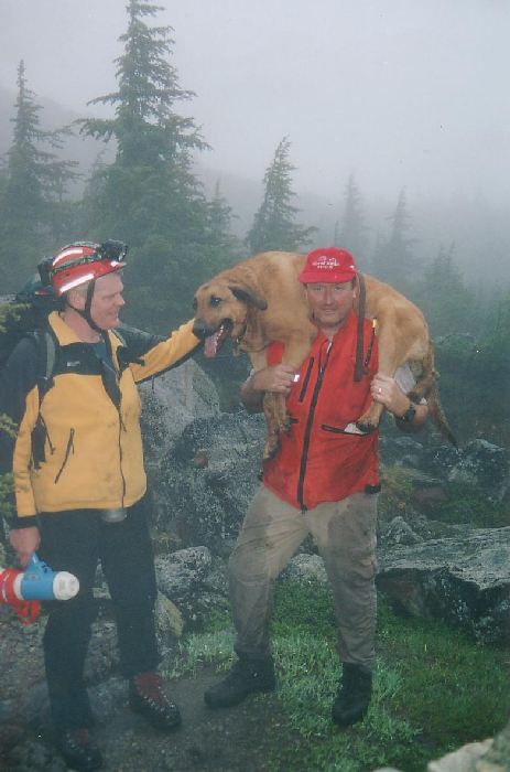 Tim Jones rescues a dog off of Mount Seymour (North Shore Rescue)